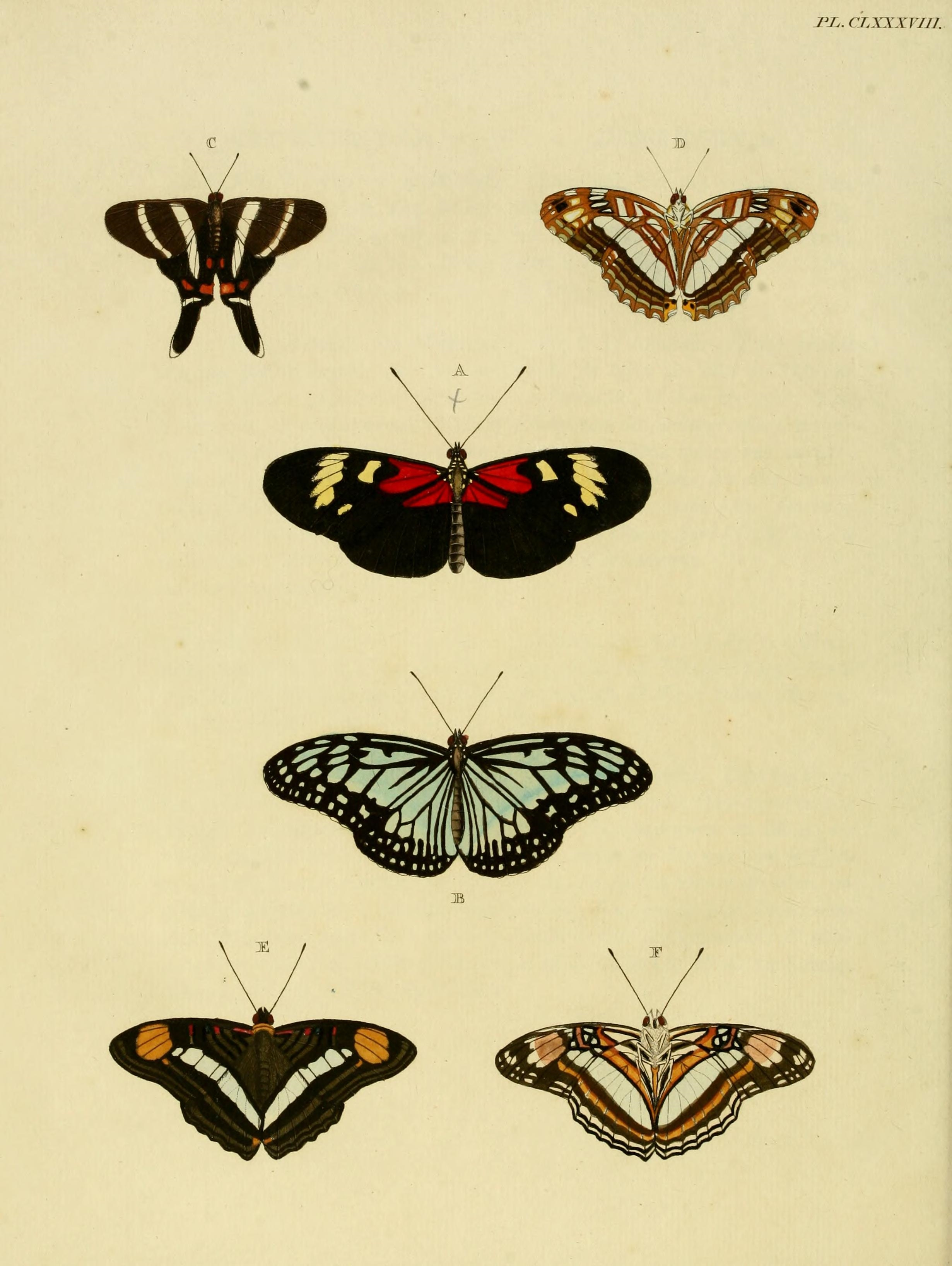 Plate CLXXXVIII A: "(Papilio) Cybele" ( = Heliconius melpomene meriana), see Funet. In register spelled as "CYBILE". B: "(Papilio) Juventa" ( = Ideopsis juventa, iconotype?), see Funet. C: "(Papilio) Periander" ( = Rhetus periander, iconotype?), see Funet and The Global Lepidoptera Names Index, NHM. D: "(Papilio) Basilea" ( = Adelpha iphiclus), see Funet. Photos at Barcode of Life. E, F: "(Papilio) Iphicla" ( = Adelpha iphiclus iphiclus), see Funet. Photos at Barcode of Life.